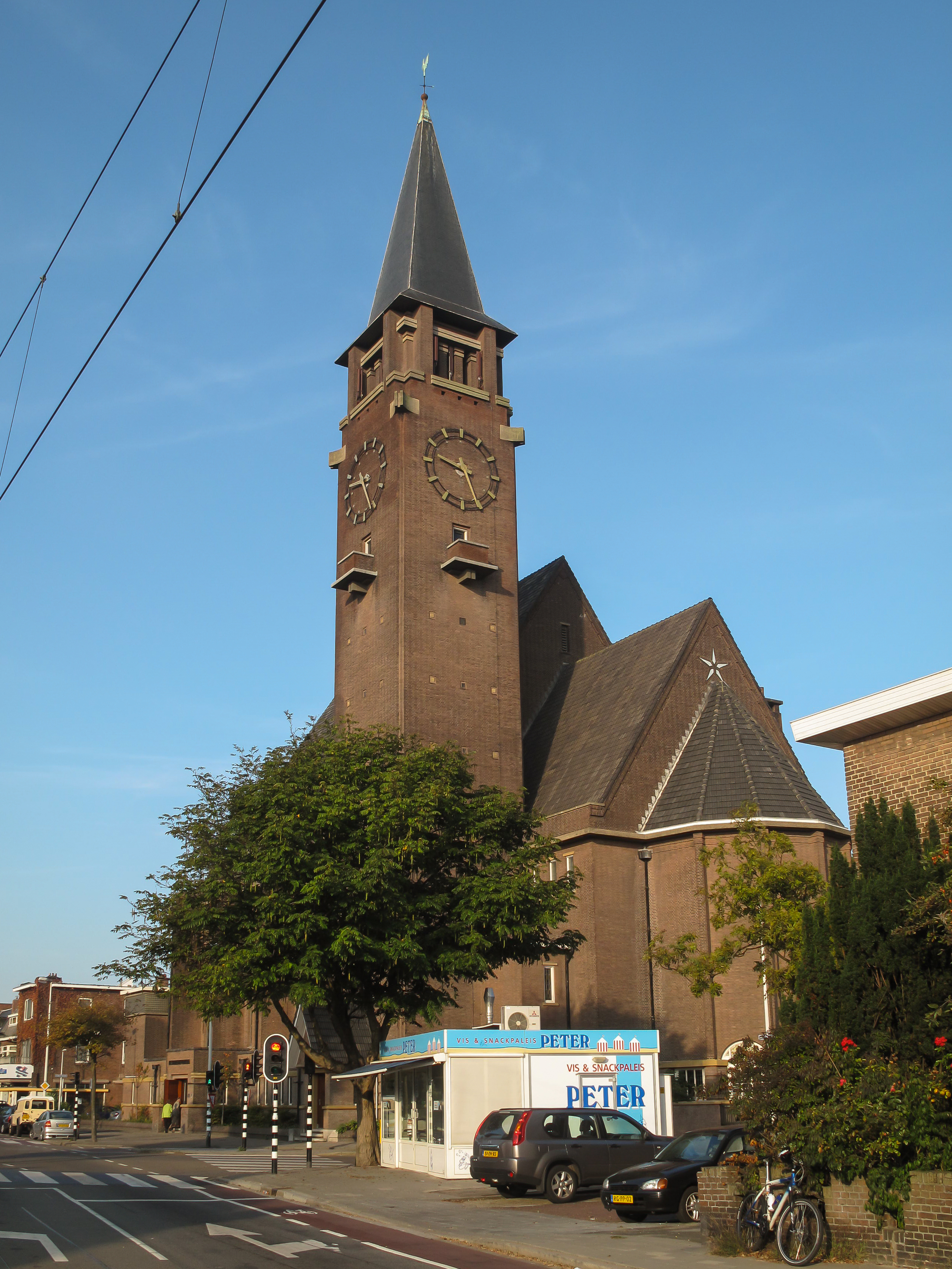 The Hague, Church: Betlehemkerk